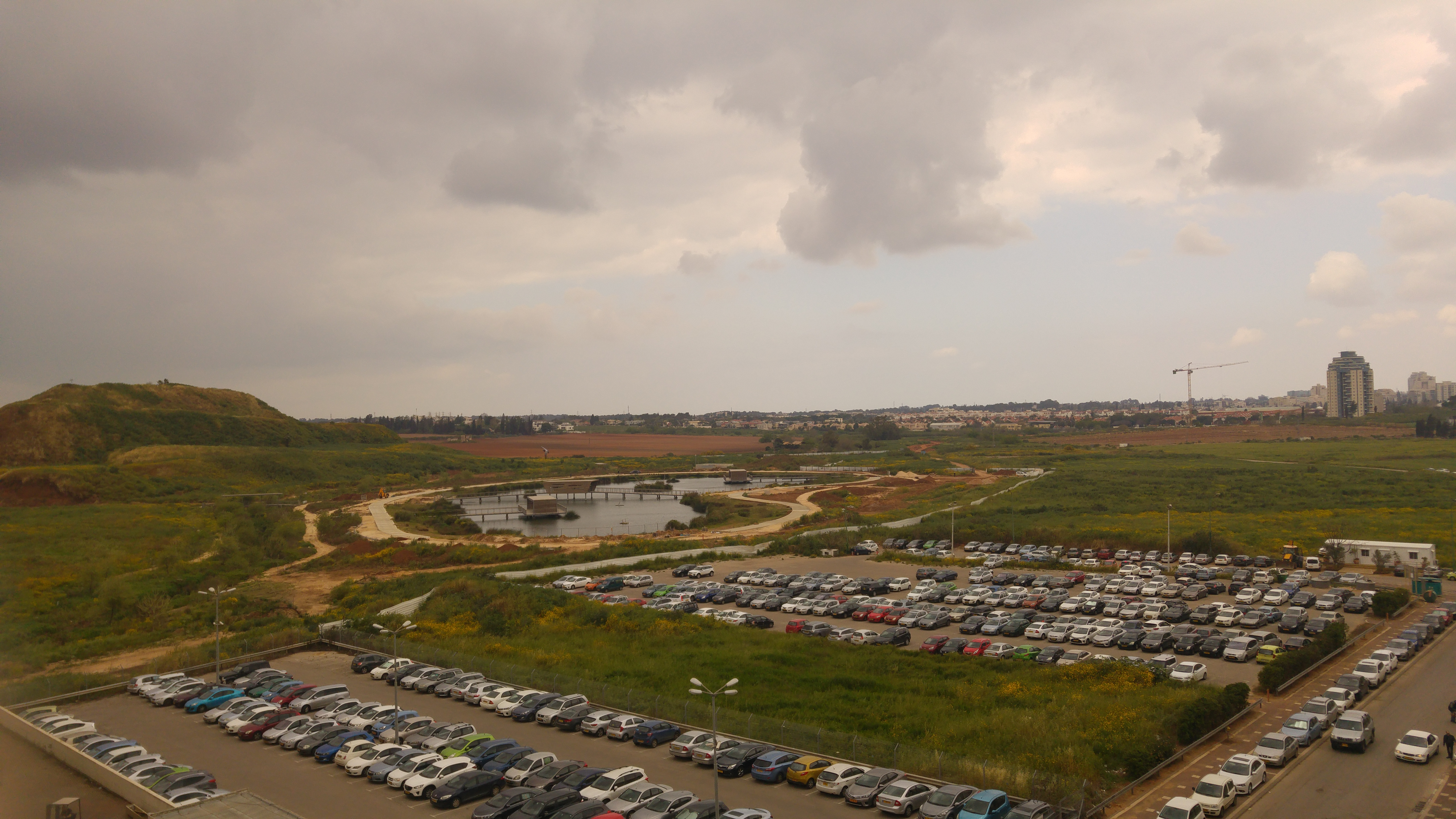 Hod Hasharon Park